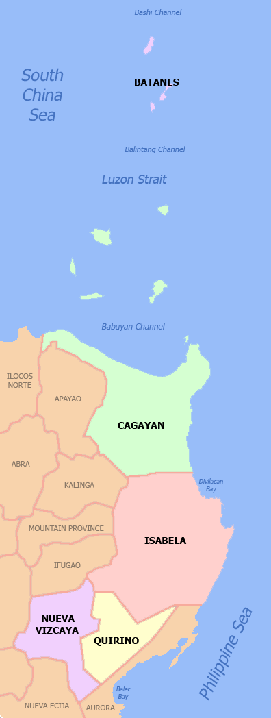 Political map of Cagayan Valley Region, Philippines. Showing Batanes, Cagayan, Isabela, Nueva Vizcaya and Quirino. Used the map template File:BlankMap-Philippines.png by User:TheCoffee.